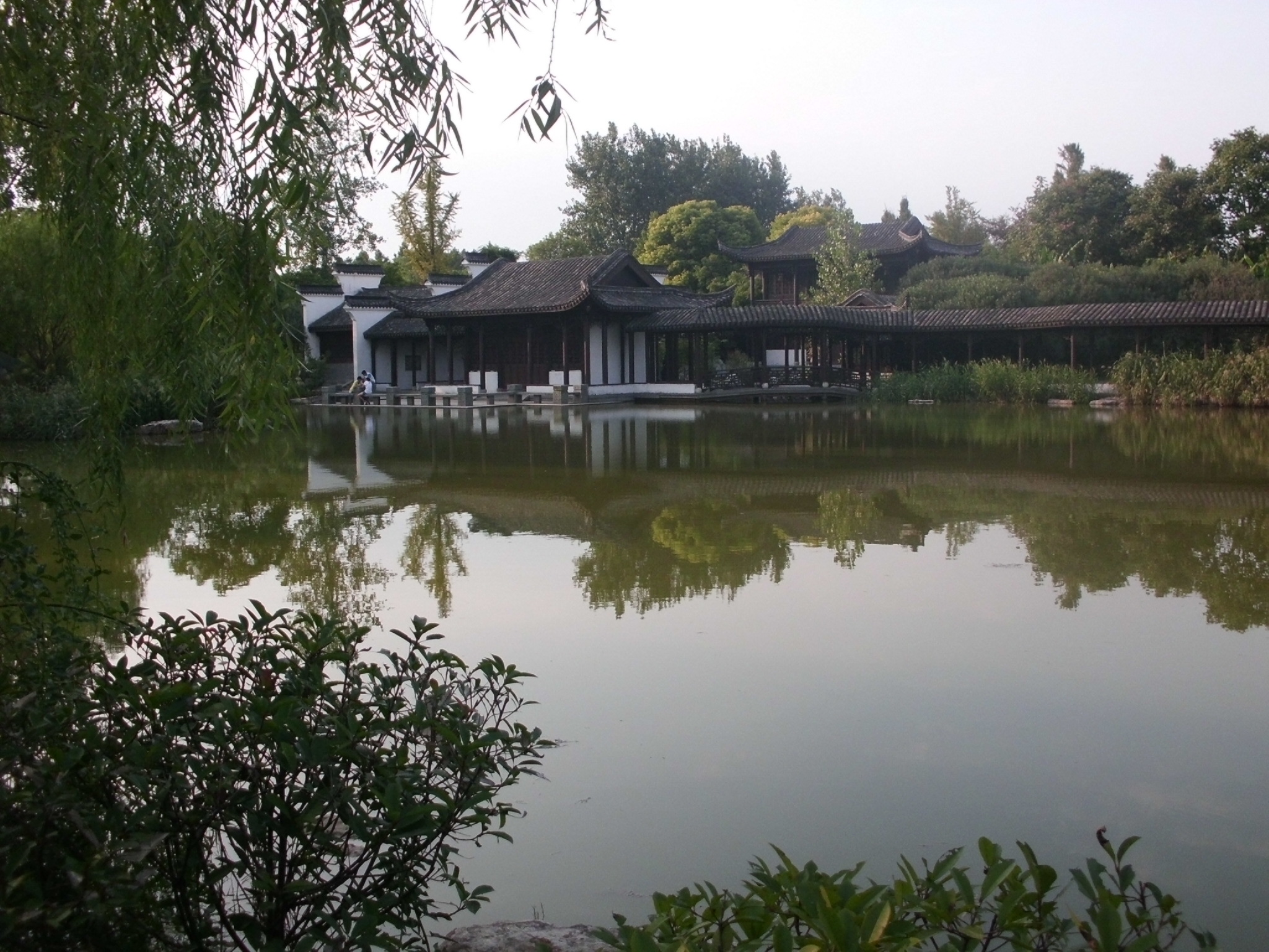 park in Xiasha District